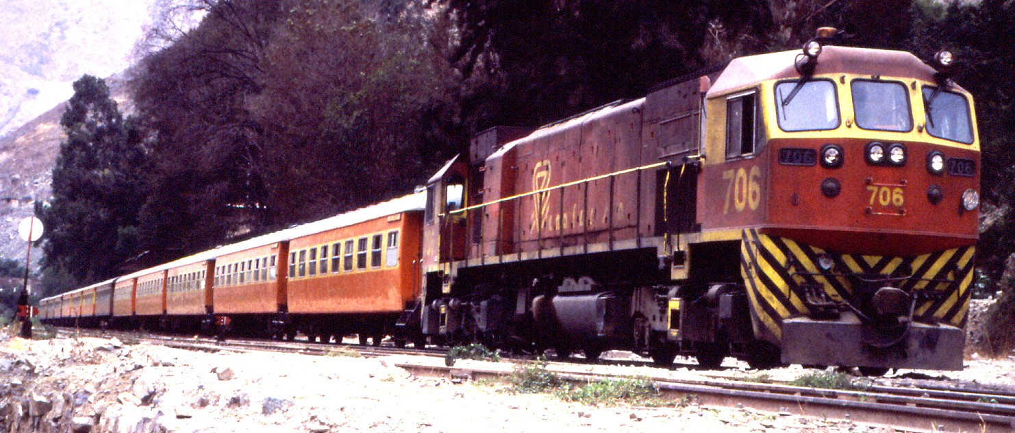 Peru 1995